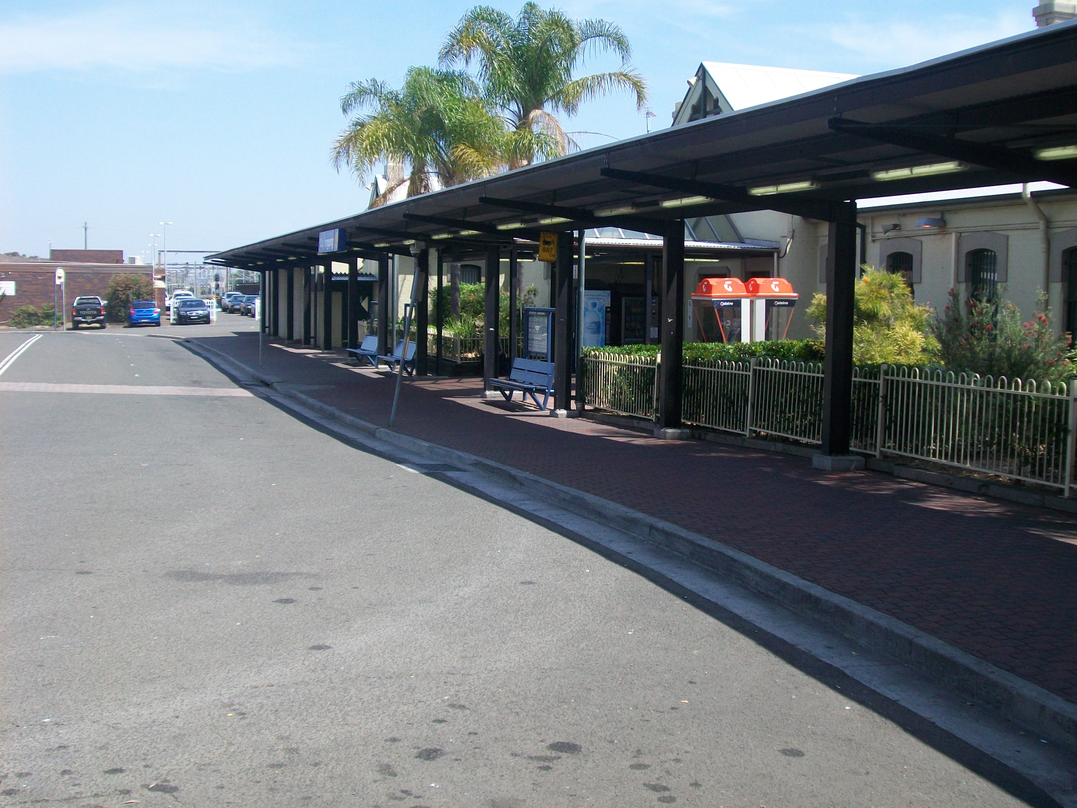 Wollongong railway station bus stop